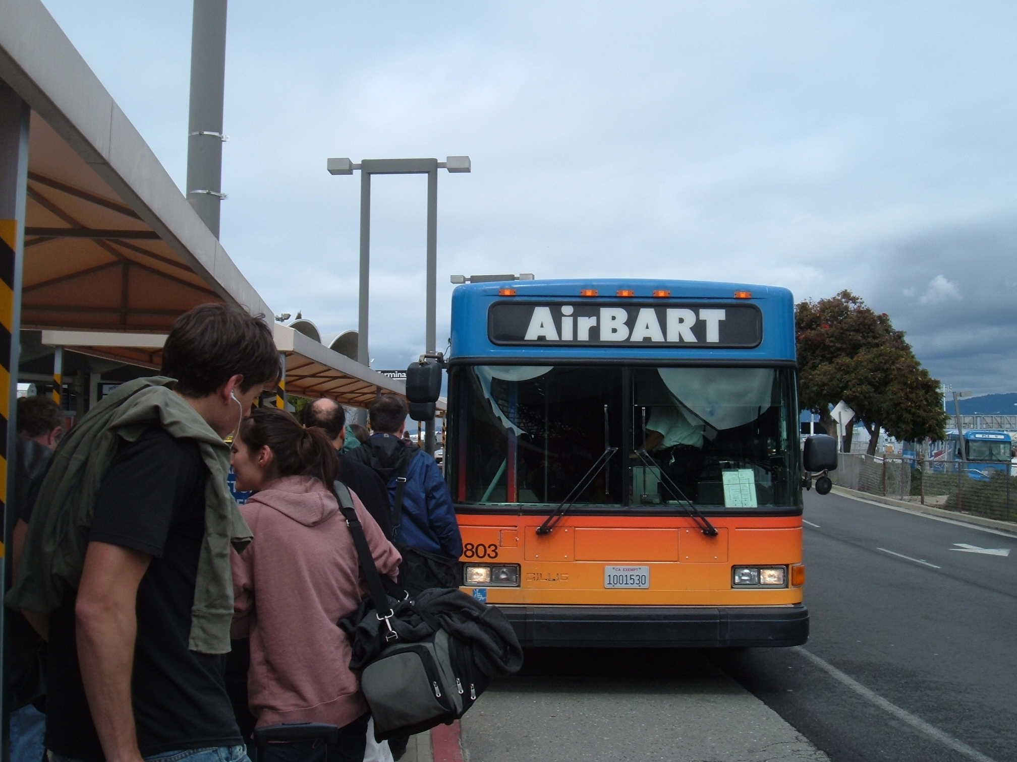 AirBART bus at Oakland International Airport.